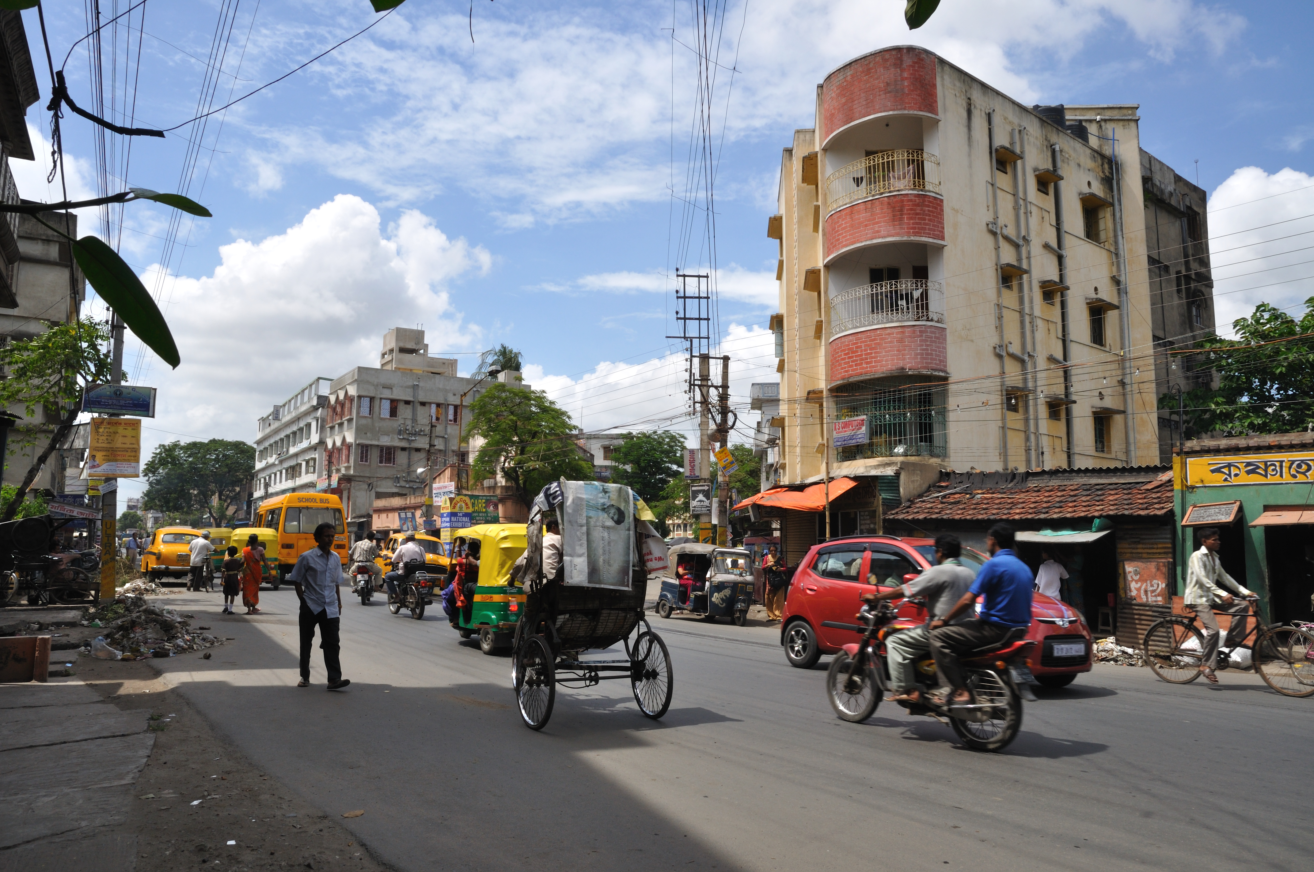 Amarabati crossing (in Bengali: Amarabati more) is a busy crossing on Barasat road at Sodepur, West bengal.